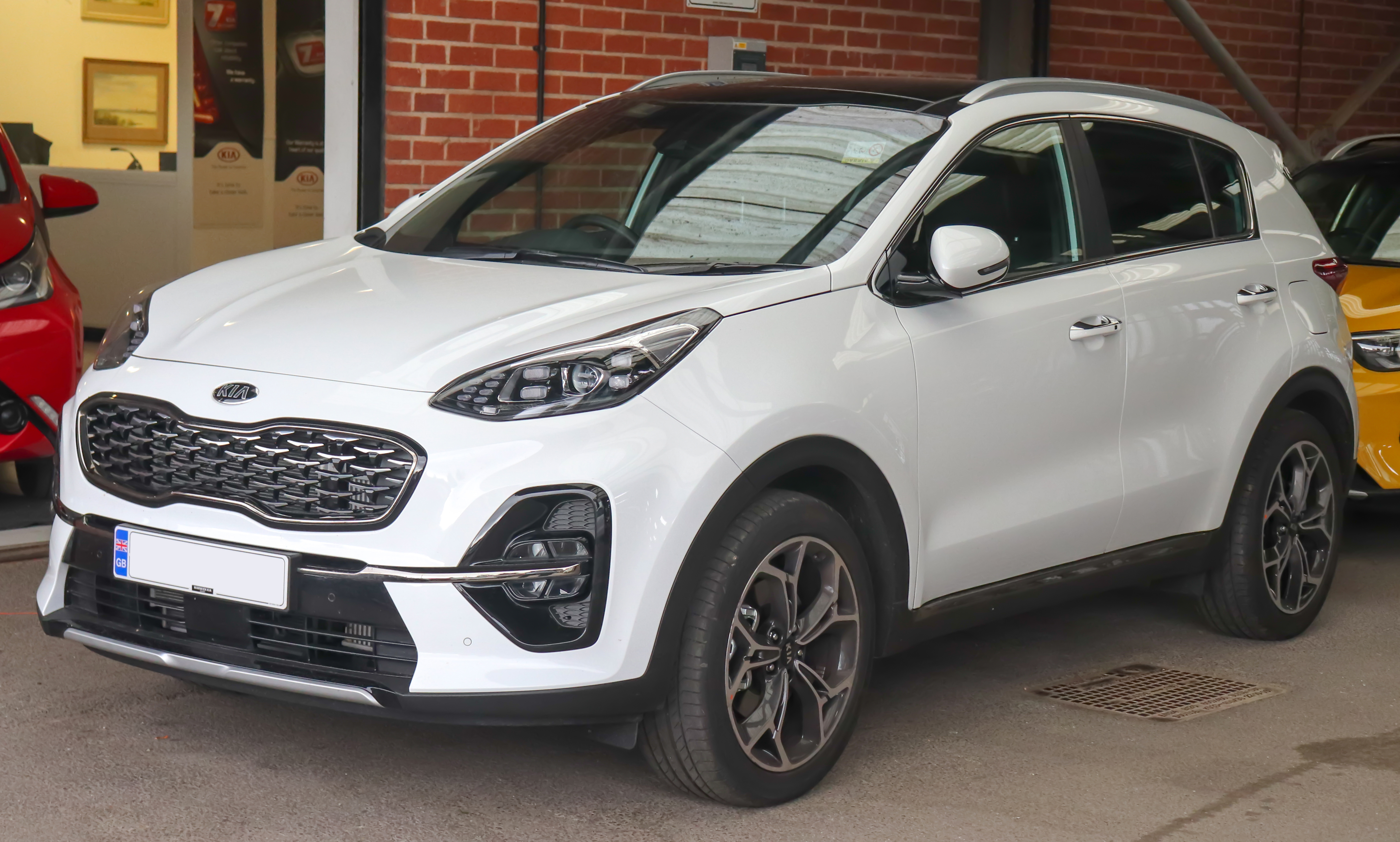 2018 Kia Sportage GT-Line S CRDi I facelift 1.6 Front Taken in Warwick